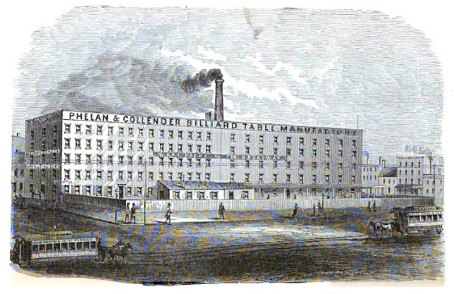 Image of Phelan and Collender Billiard Table Manufactory. According to the book the image is taken from, the Factory was on Tenth Avenue in Manhattan extending the full length between 36th and 37th streets and manufactured, among other billiard industry products such as balls and markers, between 700 and 1,000 billiard tables yearly. As of 1872, the factory was three times as large as any other similar billiard factory in the world.